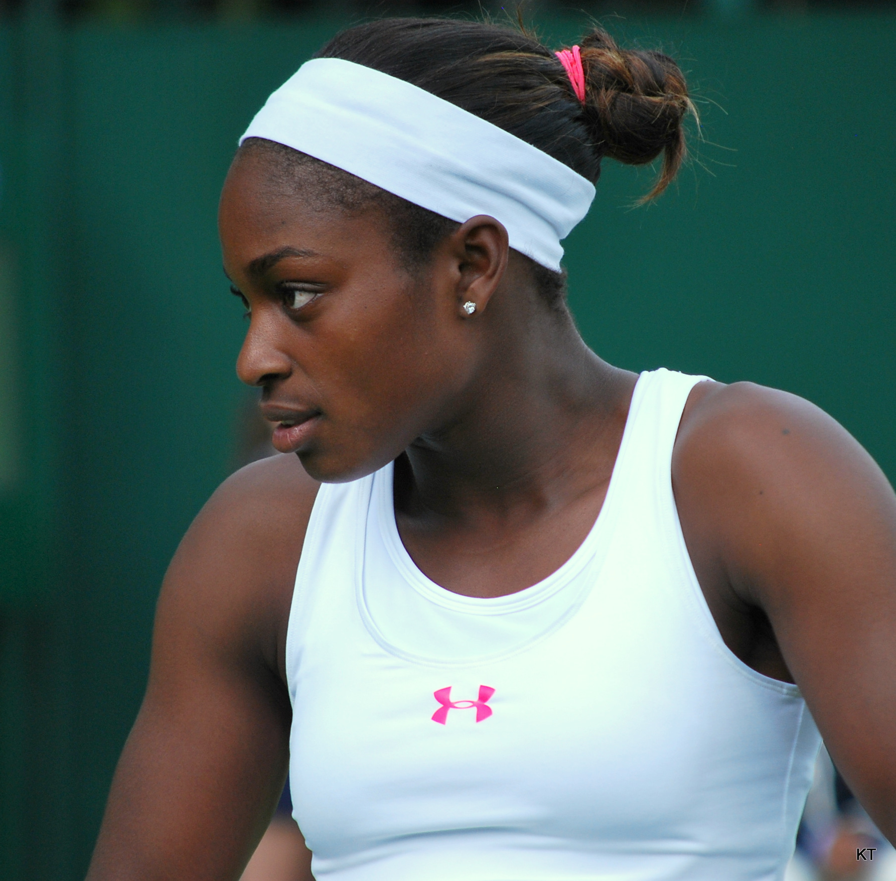 Sloane Stephens during her first round match with Karolina Pliskova on Day 1 of Wimbledon 2012.